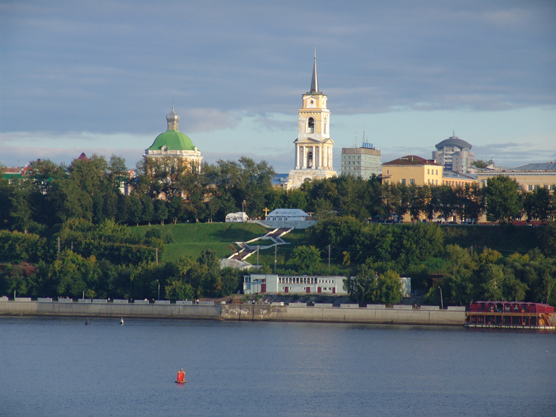 Art Gallery in Perm